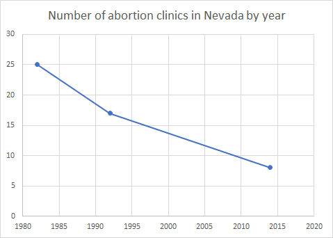 Number of abortion clinics in Nevada by year. Data is from articles linked at